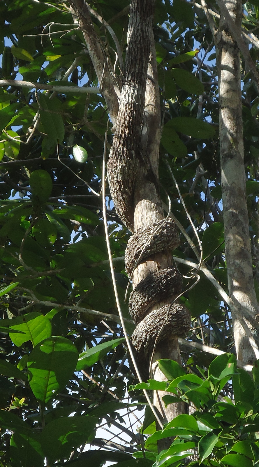 Banisteriopsis nummifera (A.Juss.) B.Gates